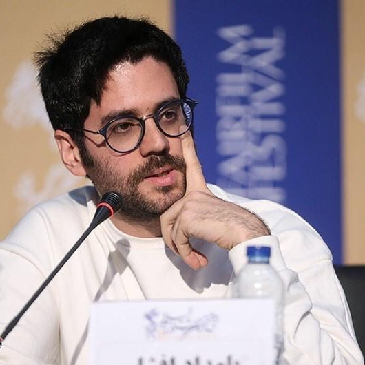 Bamdad Afshar